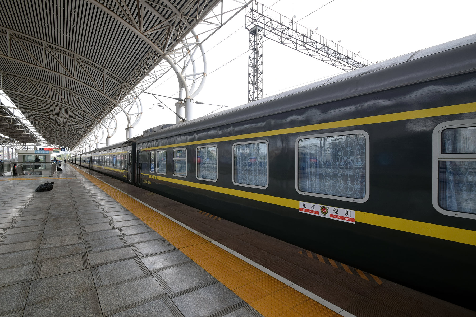 K115 25G train was preparing for departure at Platform 9 of Jiujiang Railway Station.